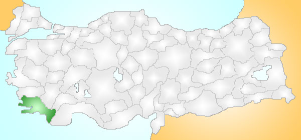 Shows the location of the Muğla province in Turkey